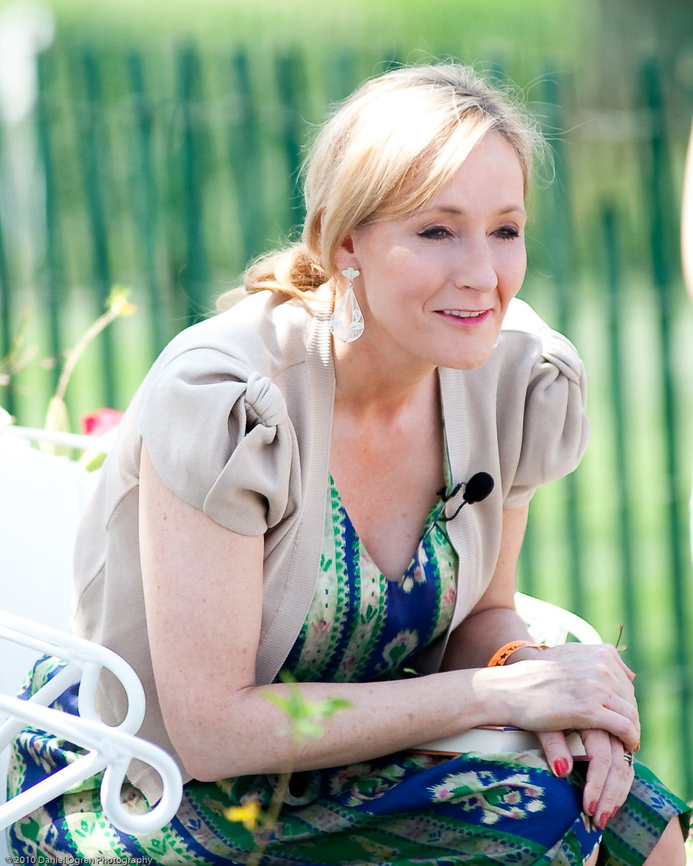 100405_EasterEggRoll_683